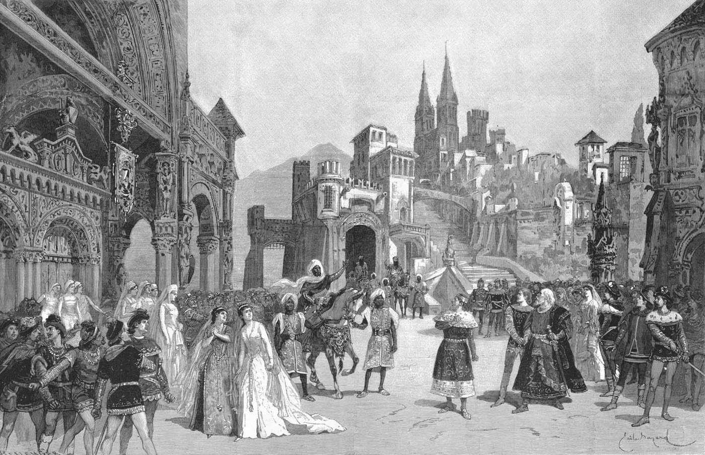 Massenet - Le Cid - 1885 - act 2, scene 4 - L'envoyé de Boabdil le maure déclarant la guerre au roi de Castille